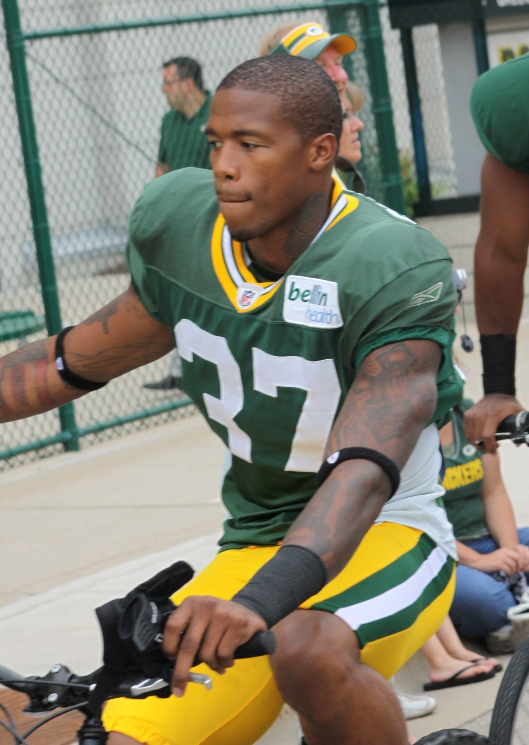 Green Bay Packers corner back Sam Shields riding a fan’s bicycle at pre-season training camp, Green Bay, Wisconsin, August 1, 2011